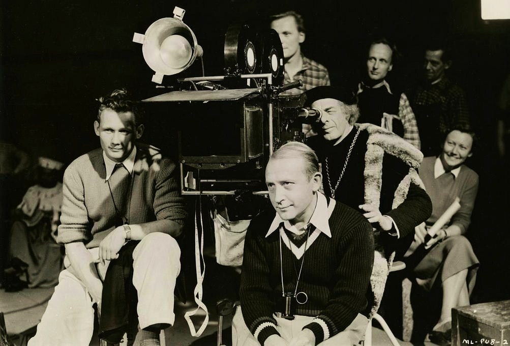 Kurt Grigoleit (assistant camera, left), Joseph C. Brun (cinematographer, foreground), Irving Pichel (director-actor, at camera) & crew, on the set of Martin Luther - publicity still (original image damaged, modified and cropped : see source)